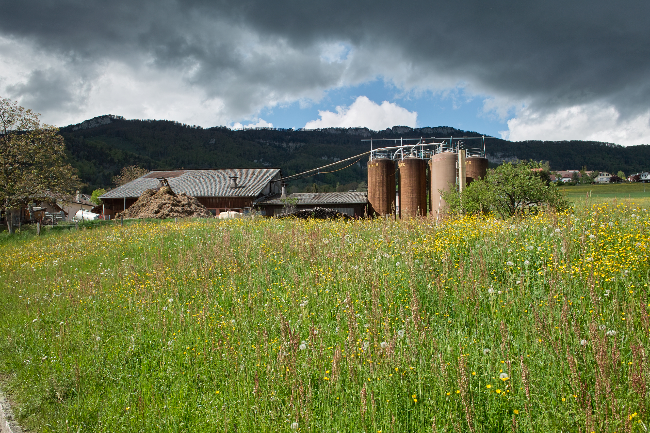 In Niederwil, community of Riedholz, canton of Solothurn, Switzerland.